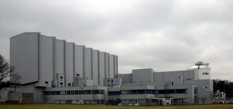 External view of the European Transsonic Windtunnel (ETW)